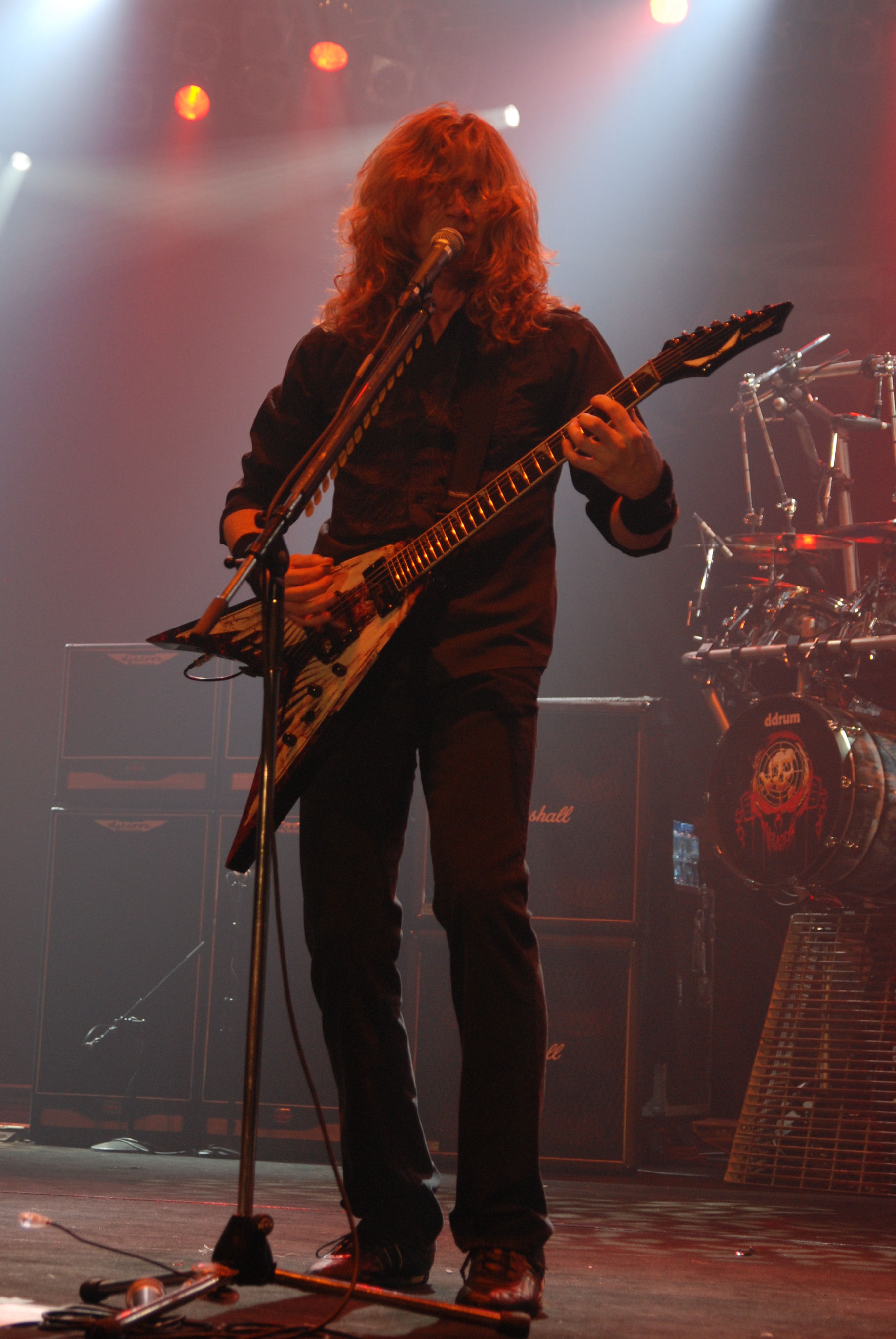 Dave Mustaine from Megadeth during Metalmania 2008 festival